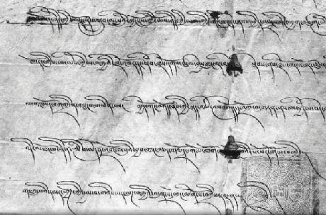 Royal Legal Document from Ladakh (King Nyi ma rnam rgyal, 1697)